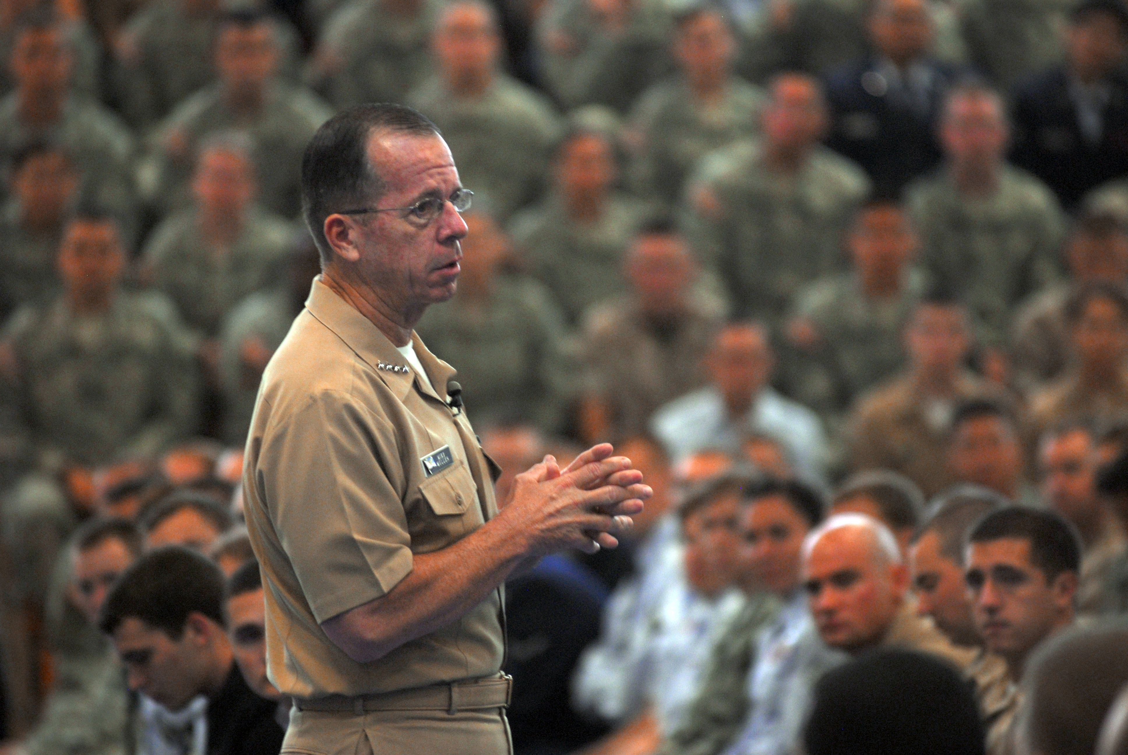 MONTEREY, Calif. (Aug. 10, 2009) Chairman of the Joint Chiefs of Staff Adm. Mike Mullen speaks to approximately 2,000 Defense Language Institute Foreign Language Center staff and students during a question and answer session at the Presidio of Monterey. Mullen visited the center the day before being inducted into the Hall of Fame at the nearby Naval Postgraduate School in Monterey. (U.S. Navy photo by Mass Communication Specialist 2nd Class Steven L. Shepard/Released)